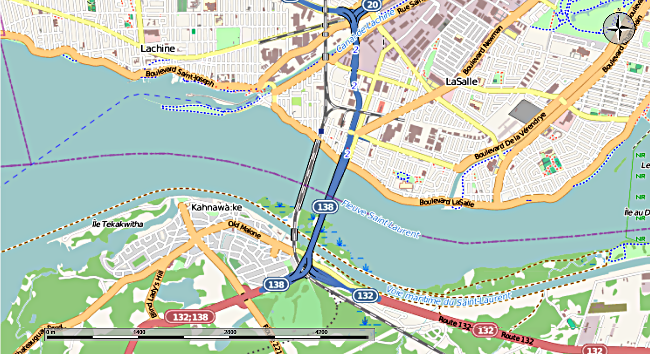 Open Street Map showing the St. Laurent Railway bridge. Lachine is at the top, Kahnawake is at the bottom.